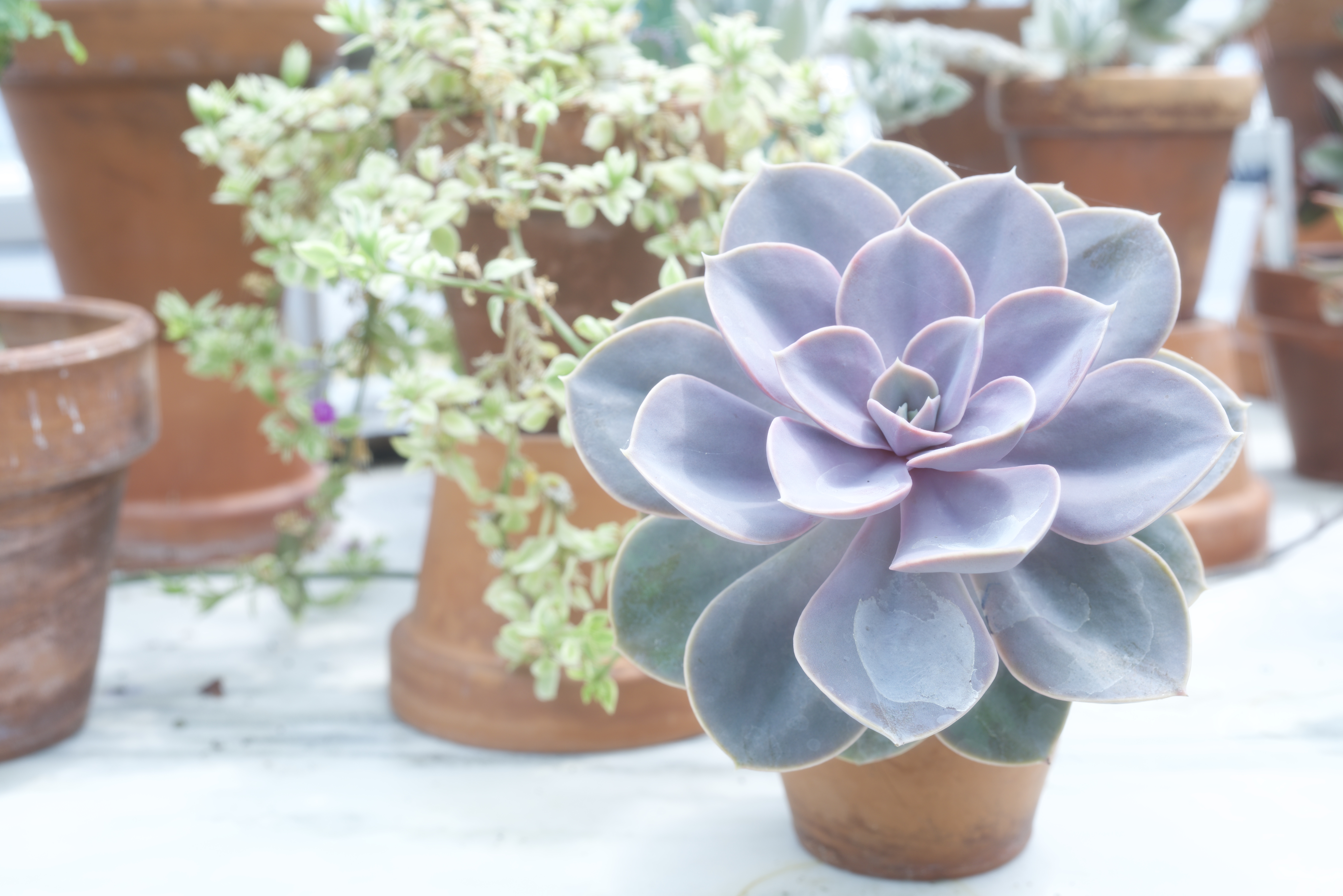 Echeveria "Perle Von Nurnberg"